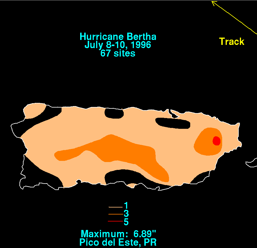 Storm total rainfall map of Hurricane Bertha in Puerto Rico during July 1996.